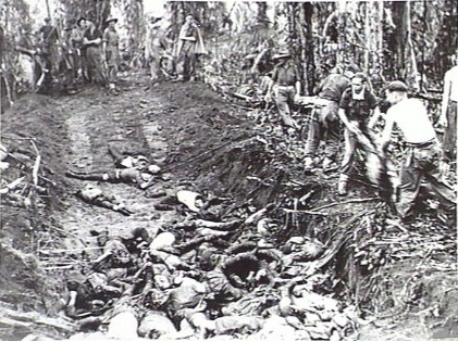 Japanese dead are buried following the Battle of Slater's Knoll 6 April 1945